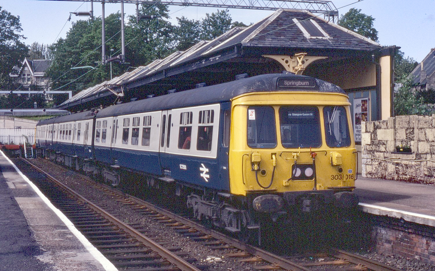 Scottish Region 3-car EMU 303.016 at Milngavie on 14 June 1986 ready to depart on the 15:50 to Springburn.